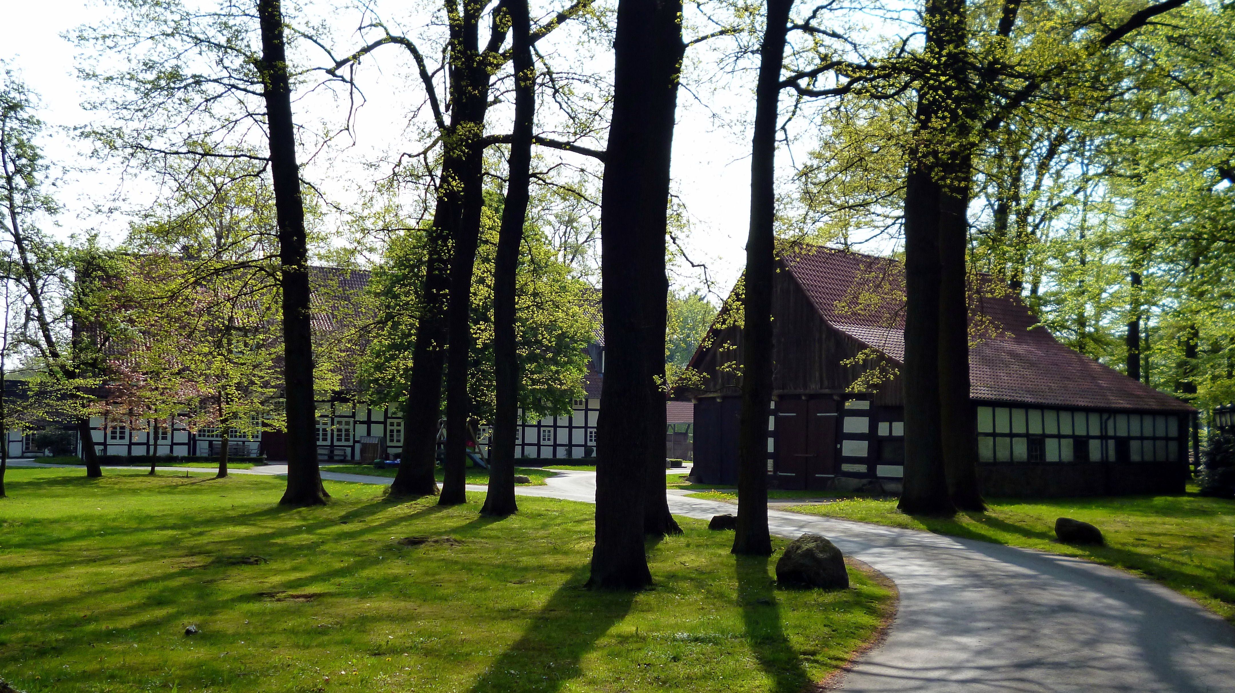 View of "Hof Johannliemke", a landmarked timber-framing-farm in Verl, near Bielefeld, in Germany This is a photograph of an architectural monument.